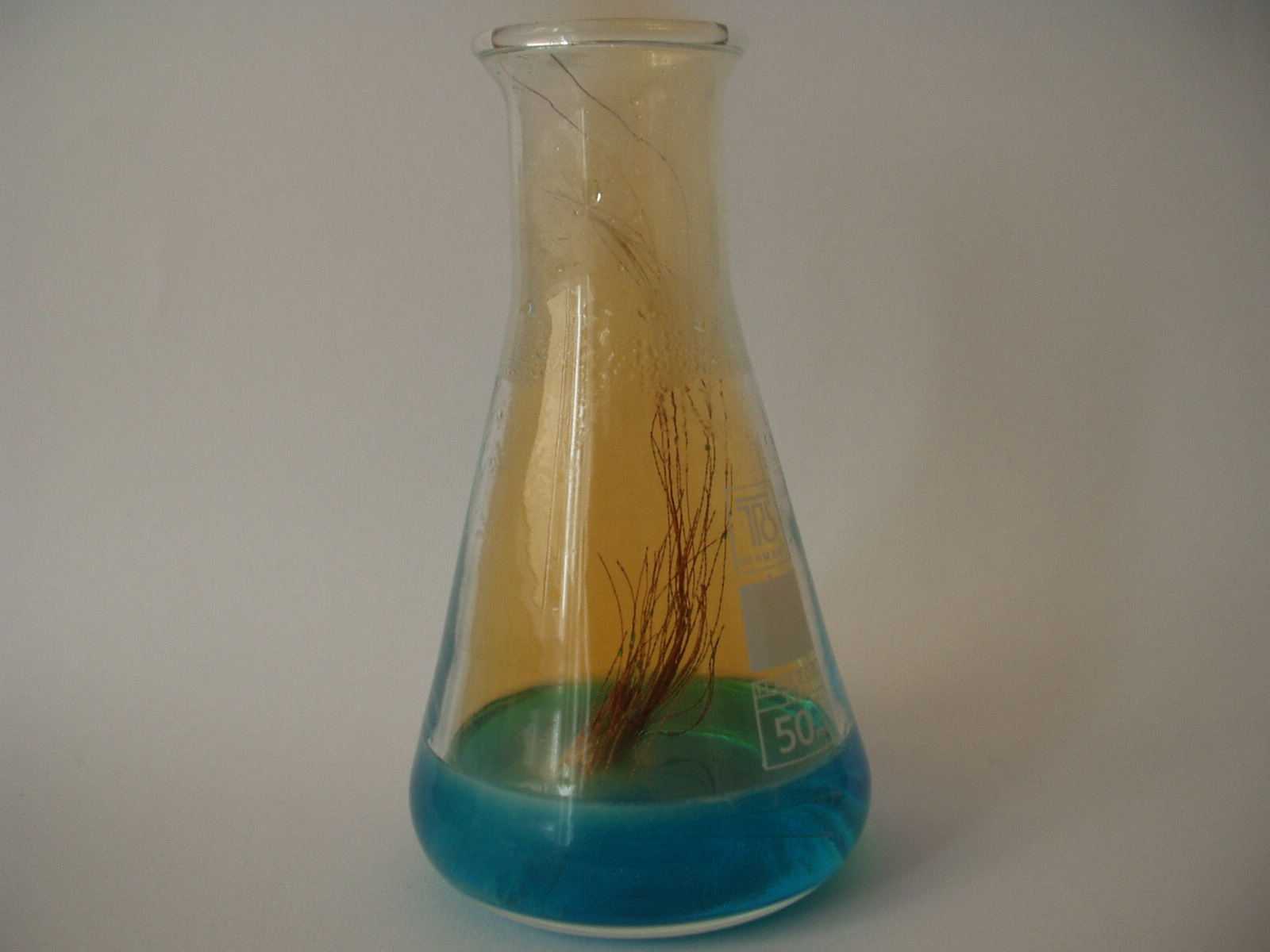 A reaction between nitric acid and copper, when nitrogen bioxide, copper nitrate(II) and water forms. Own work, created on 17th August 2006.